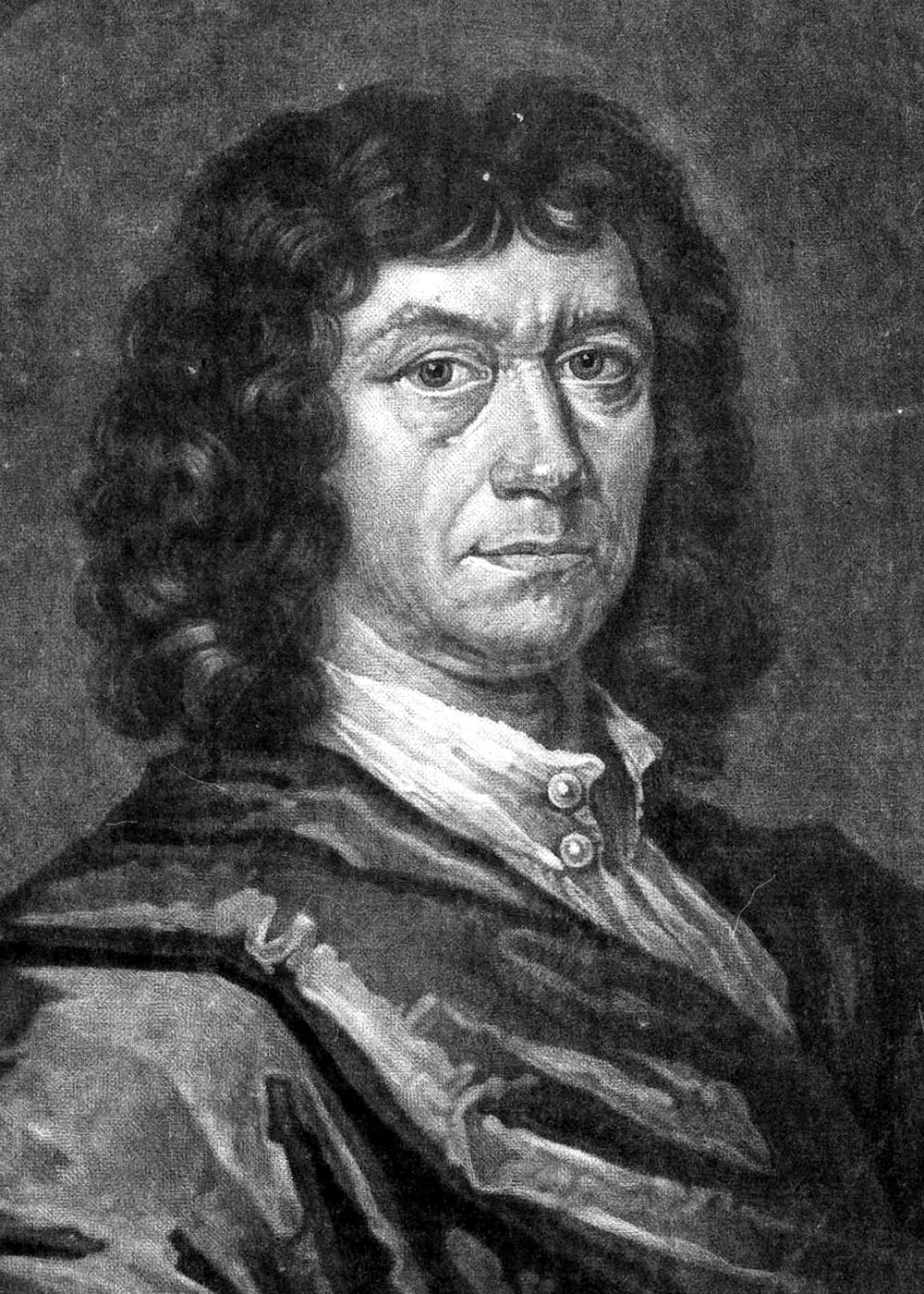 Portrait of Johann Beer (1655–1700)